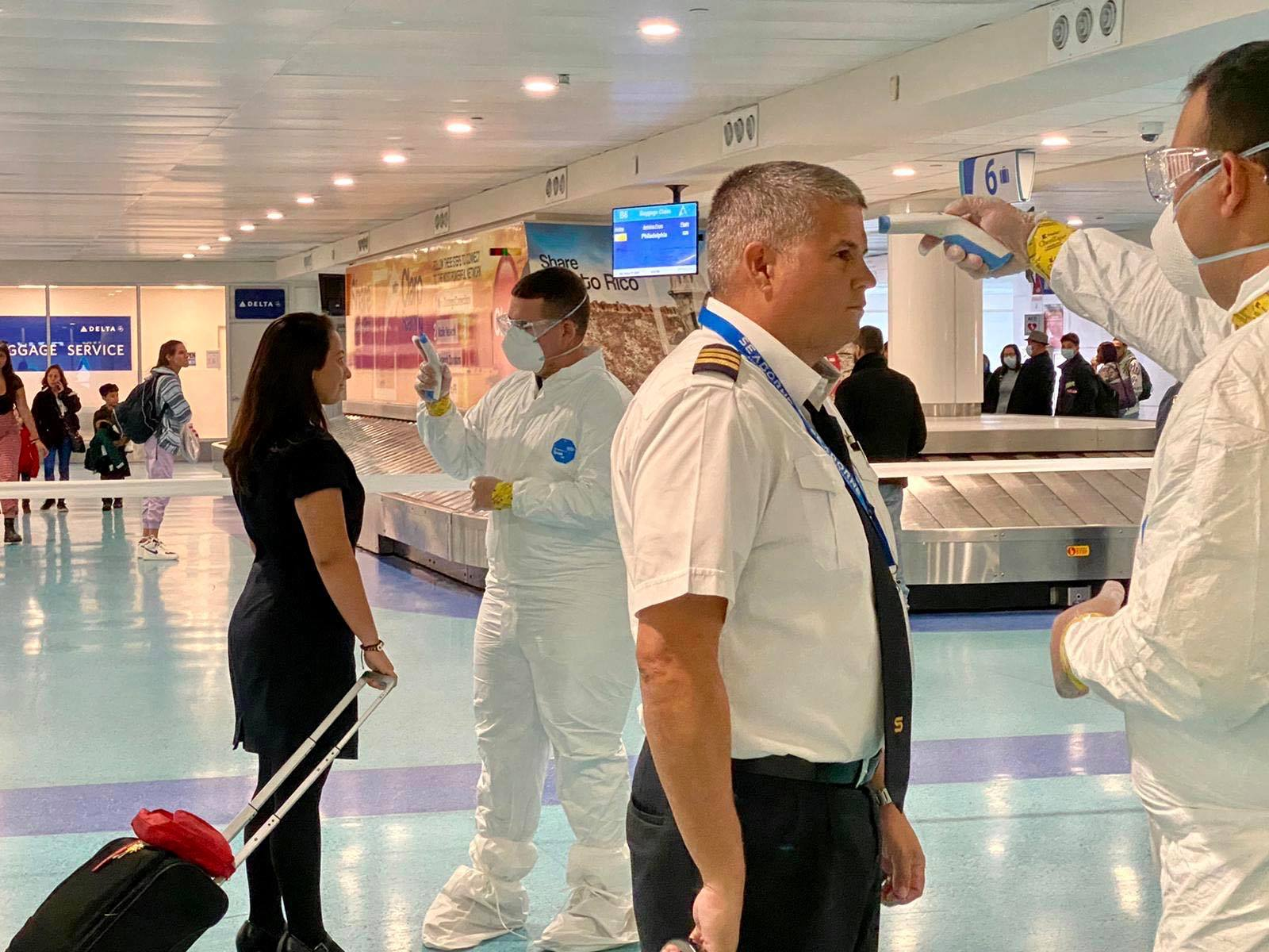 Citizen-Soldiers of the Puerto Rico National Guard along with the Department of Health and other state and federal agencies have begun evaluating and giving orientation to all passengers arriving at Luis Muñoz Marín International Airport in Carolina, Puerto Rico, through screenings to detect any suspected case of COVID-19 and avoid more infections, March 17, 2020. (Courtesy of the Puerto Rico National Guard)